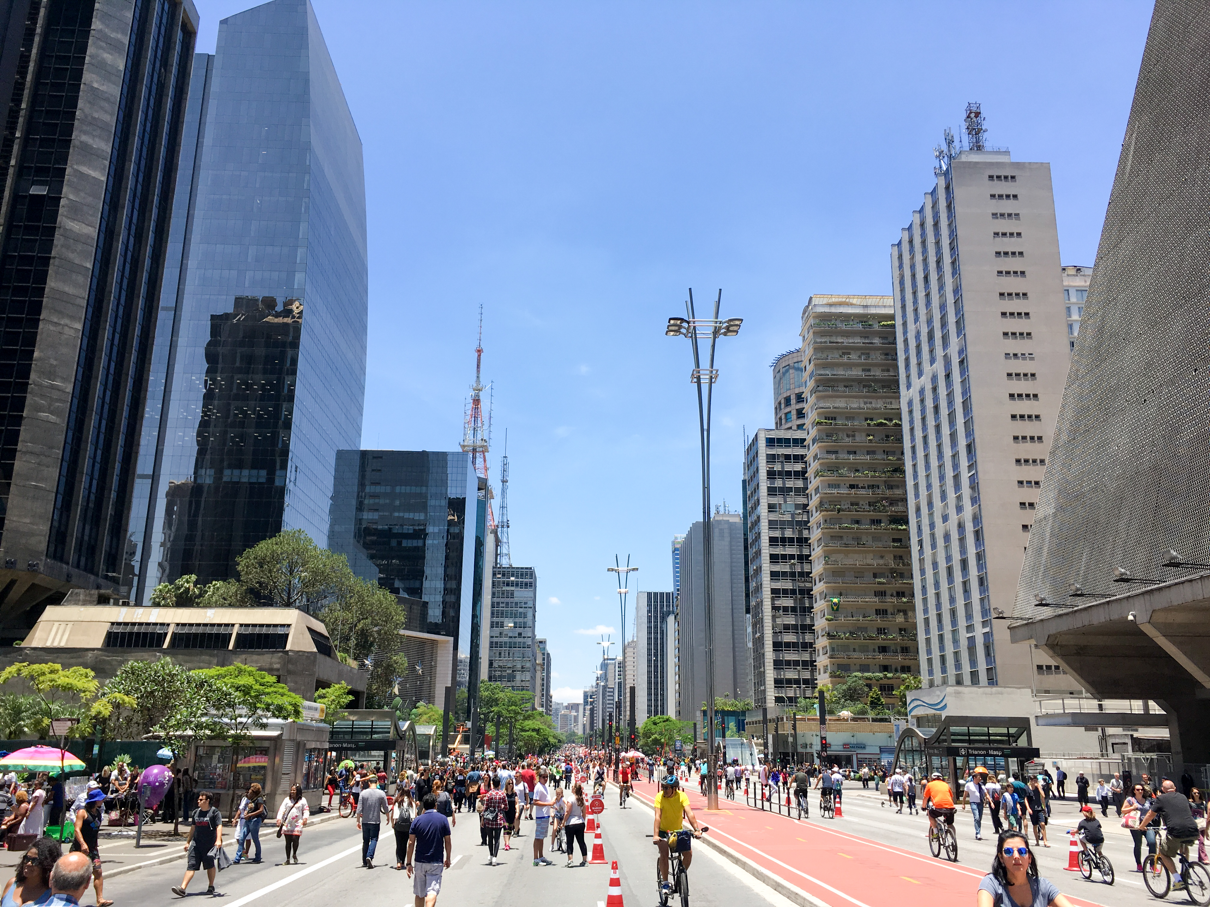 Paulista Avenue, São Paulo, Brazil.